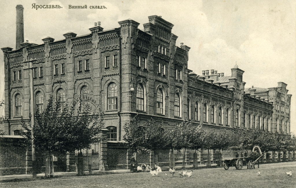 Wine warehouse in Yaroslavl, Russia.